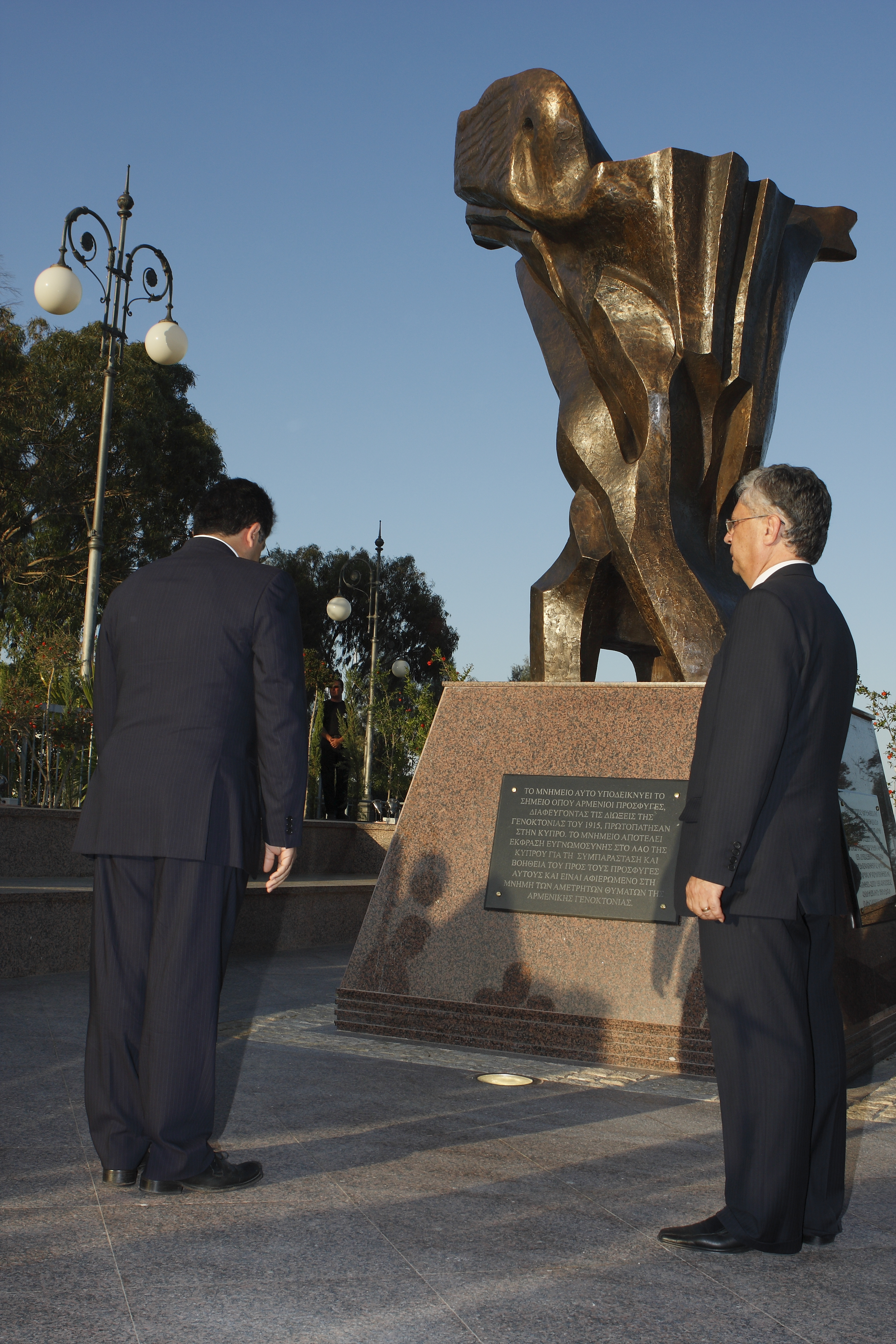 The Armenian Genocide Memorial in Larnaca being unveiled in 2008.